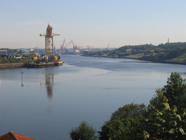 Quiet River Tyne. Impressive right angle bend in the Tyne shows us huge expanse of water. In the background is Swan Hunter's Shipyard. On 14th of July 2006 it was made public that the shipyard would never again make another ship. On the 17th of July the HMS Lyme Bay was towed, half completed, from its slipway.